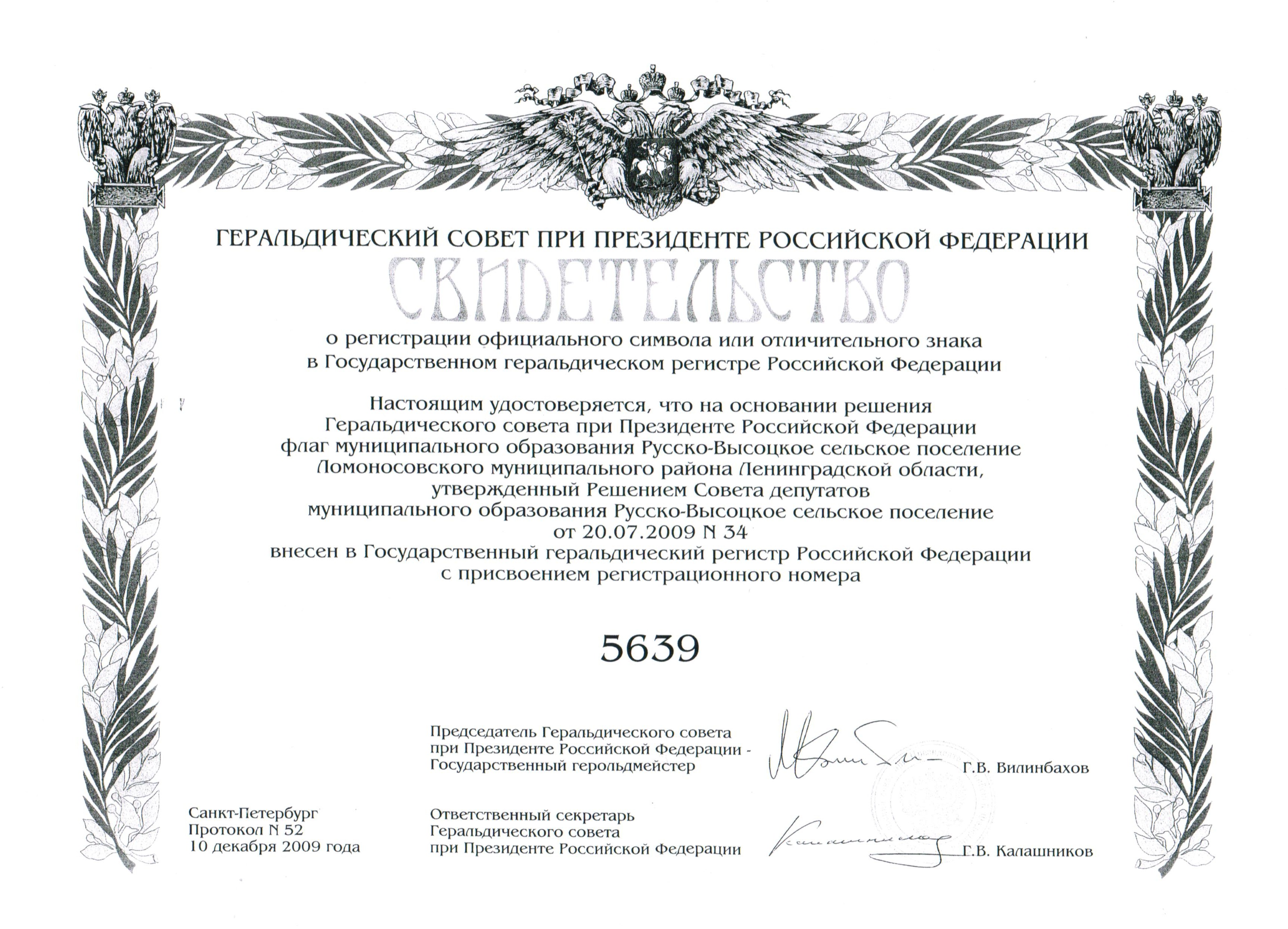 Certificate of registration of the flag Russko-Vysotskoe rural settlement